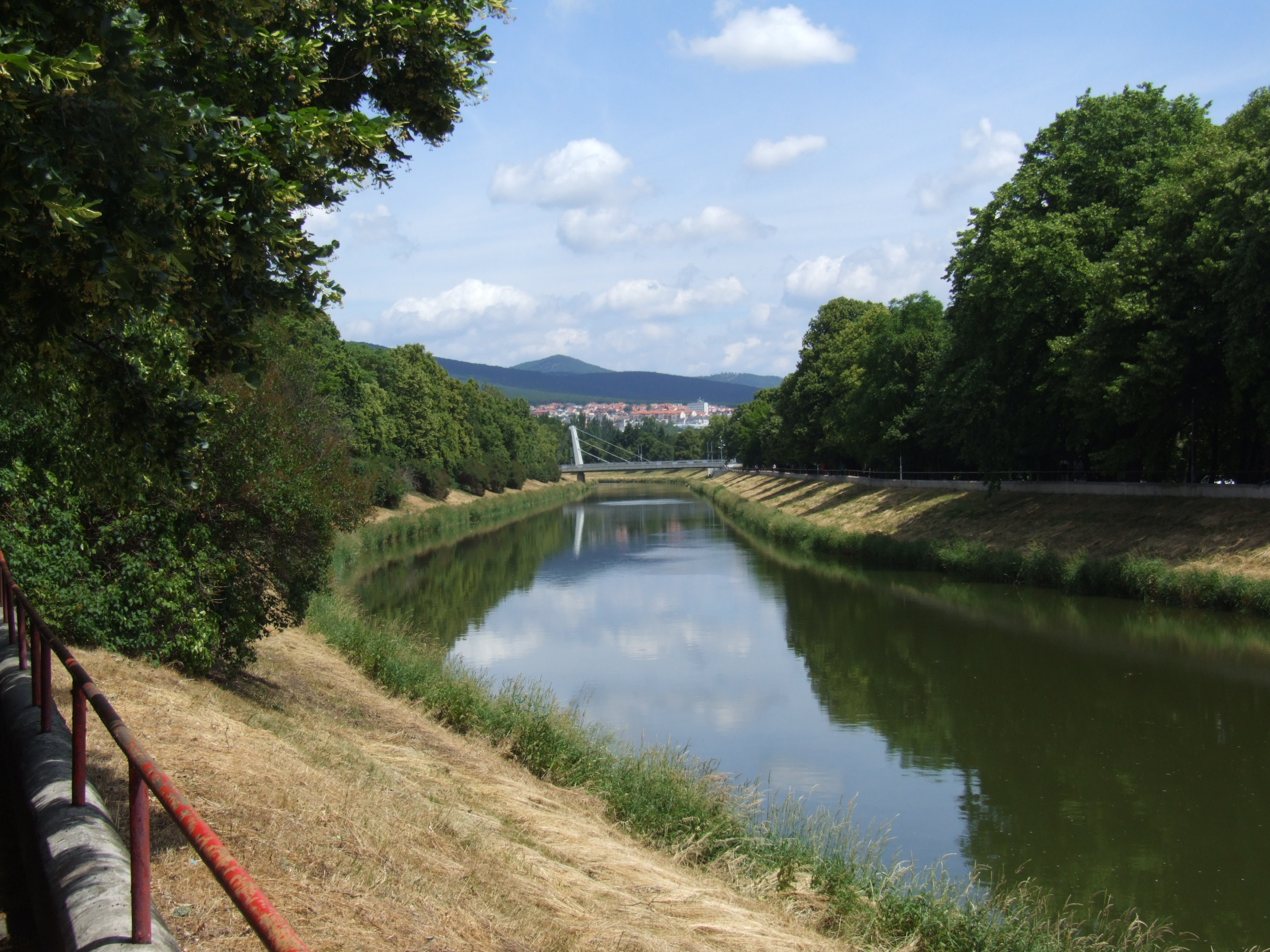 River Nitra (Nyitra) in city Nitra (Nyitra), Slovakia